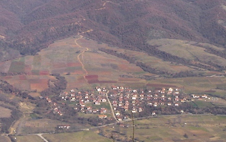 Samoilovo village on the foothills of Ograzhden mountain, Strumica region, Macedonia